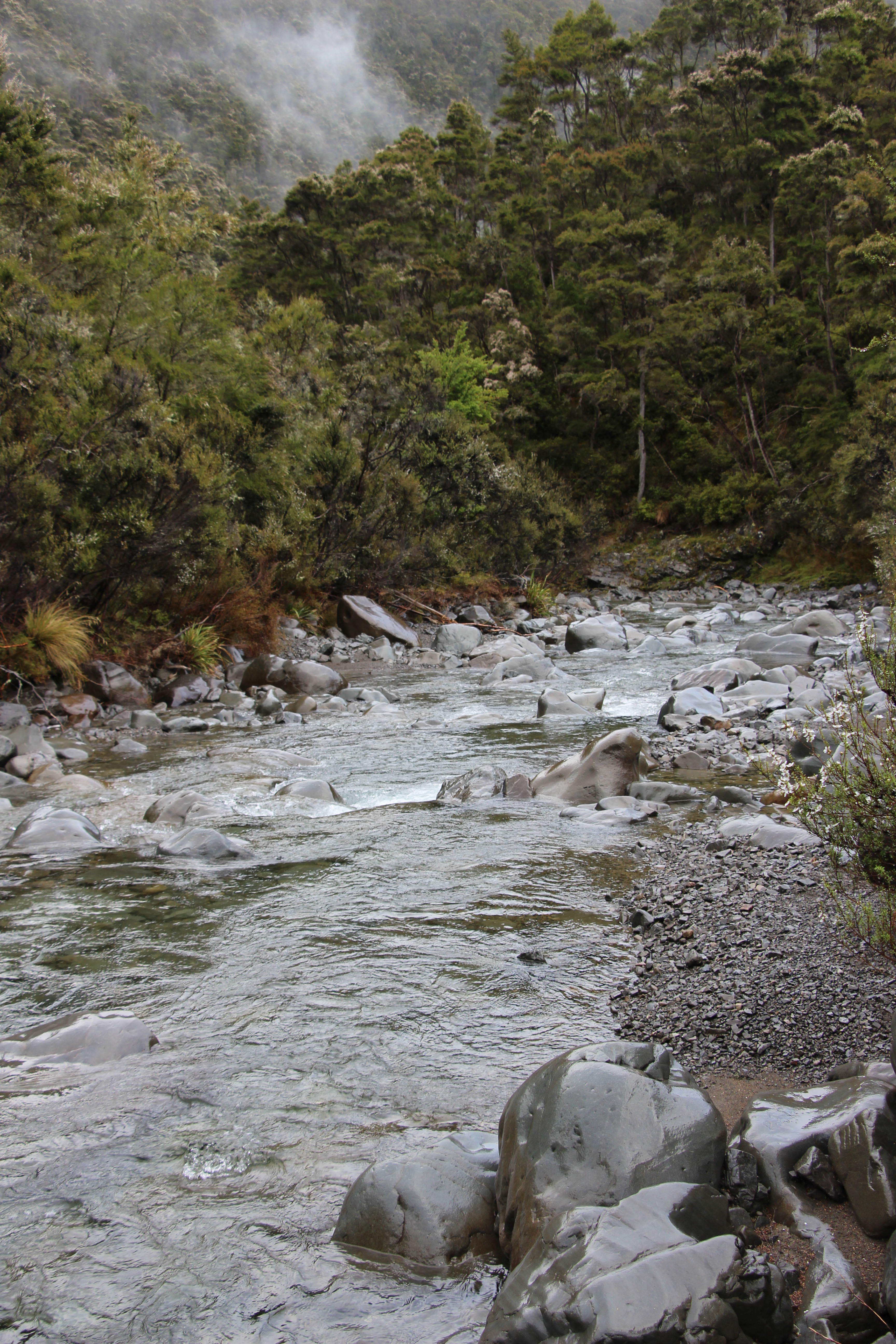 Ngaruroro River. Taken from the track between Kiwi Mouth and Kiwi Saddle Hut. Kawekas, New Zealand